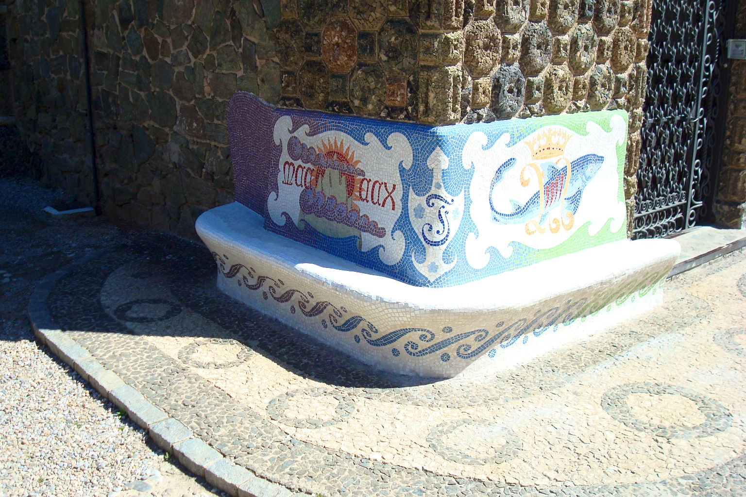 Bench at the entrance of Bellesguard (Barcelona)